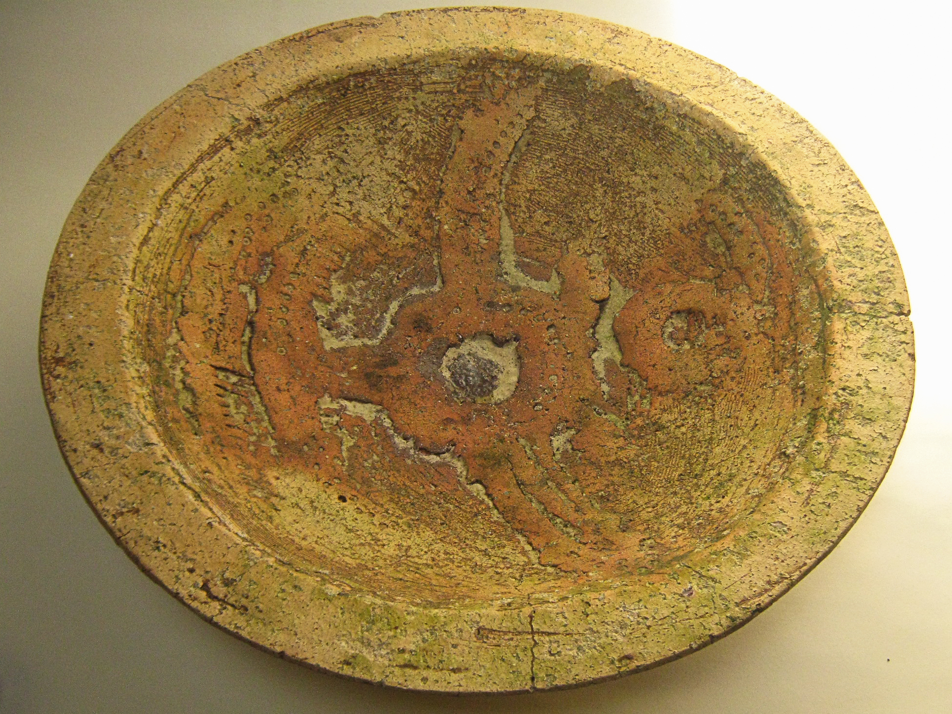 Textured fireclay bowl by Ian Sprague by Ian Sprague; photographed in a private collection in Enfield Victoria